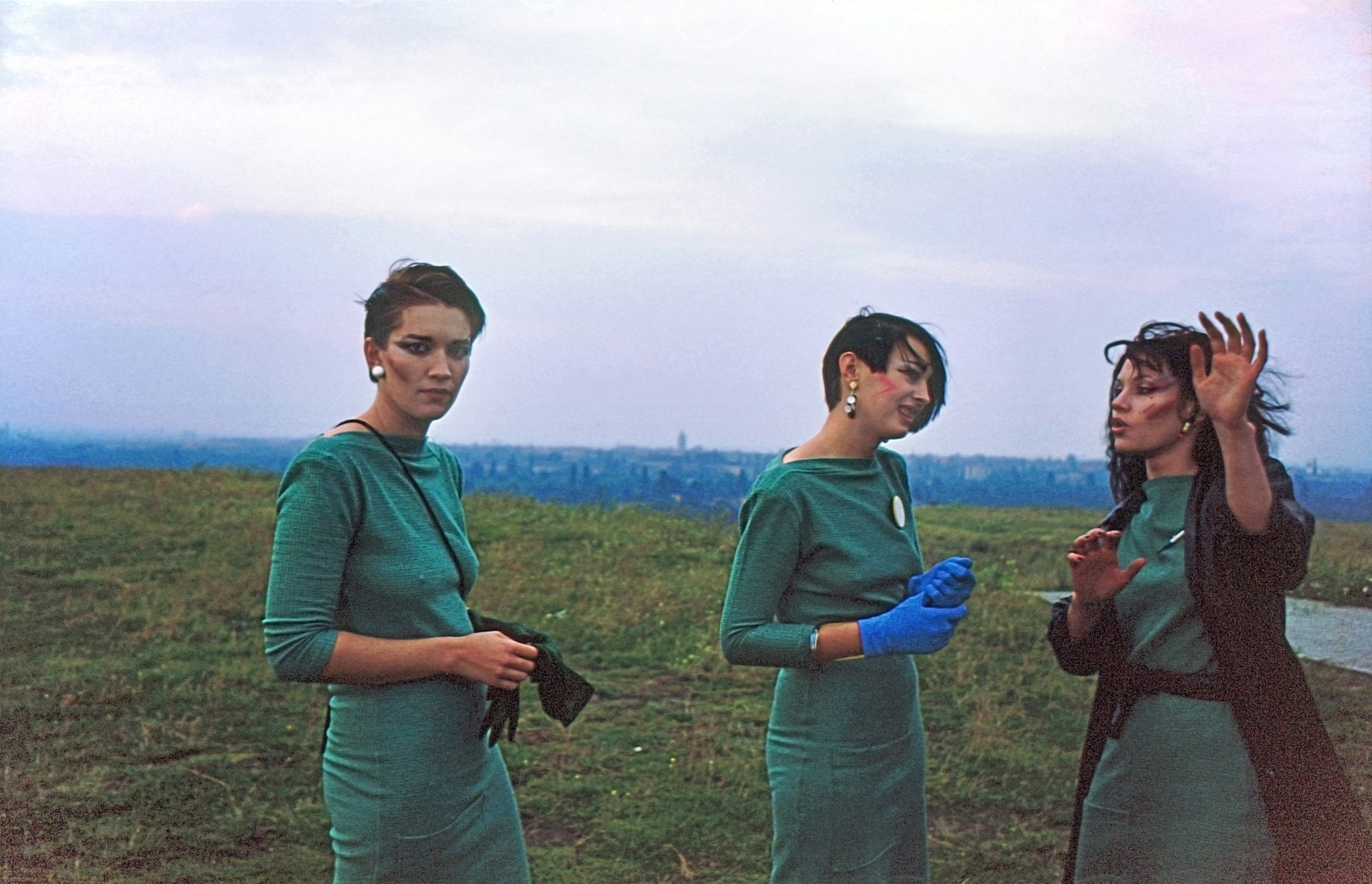 Mania D, Gudrun Gut, Karin Luner, Bettina Köster Berlin Sept 1979